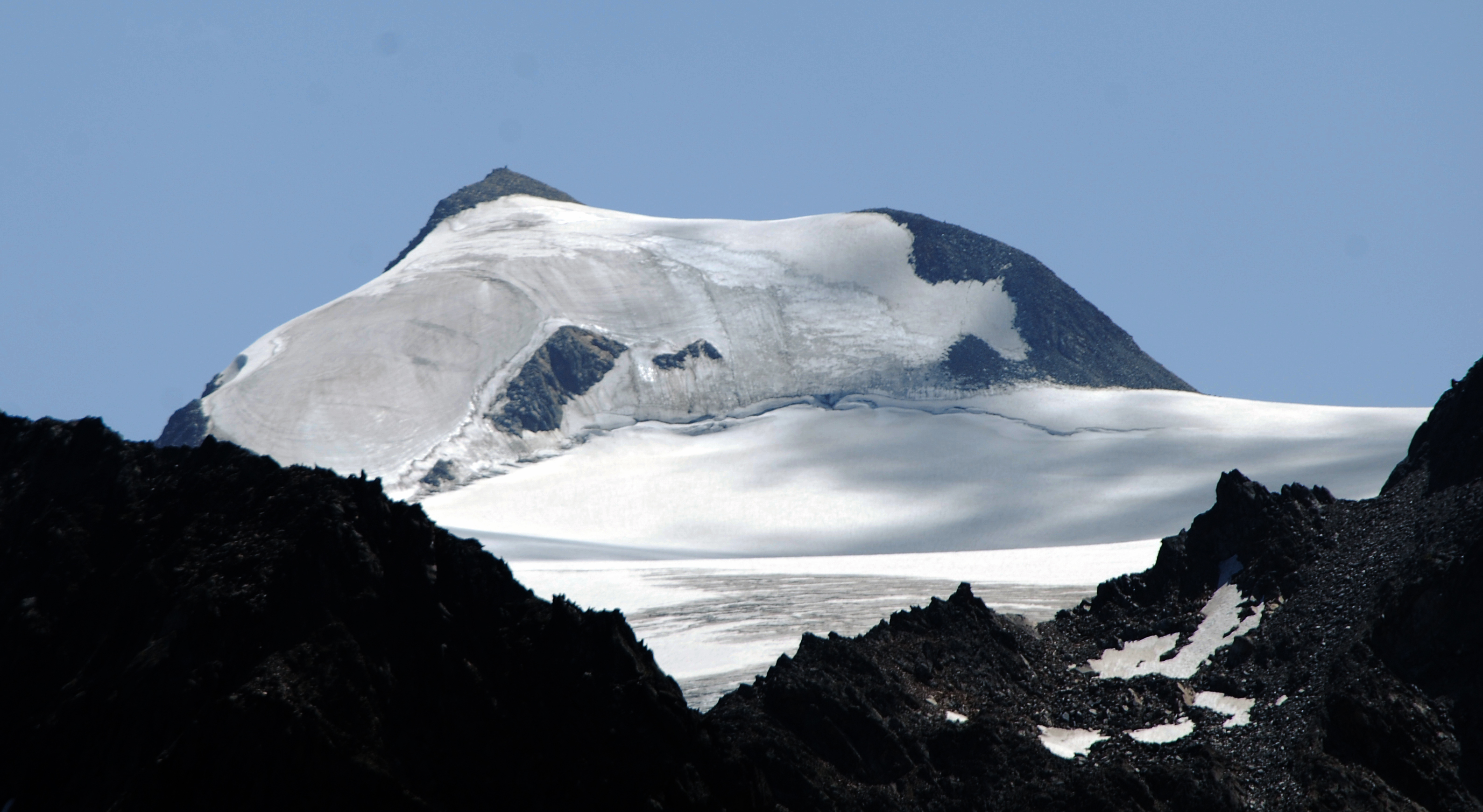 Wilder Pfaff from NW (near Mutterbergsee)